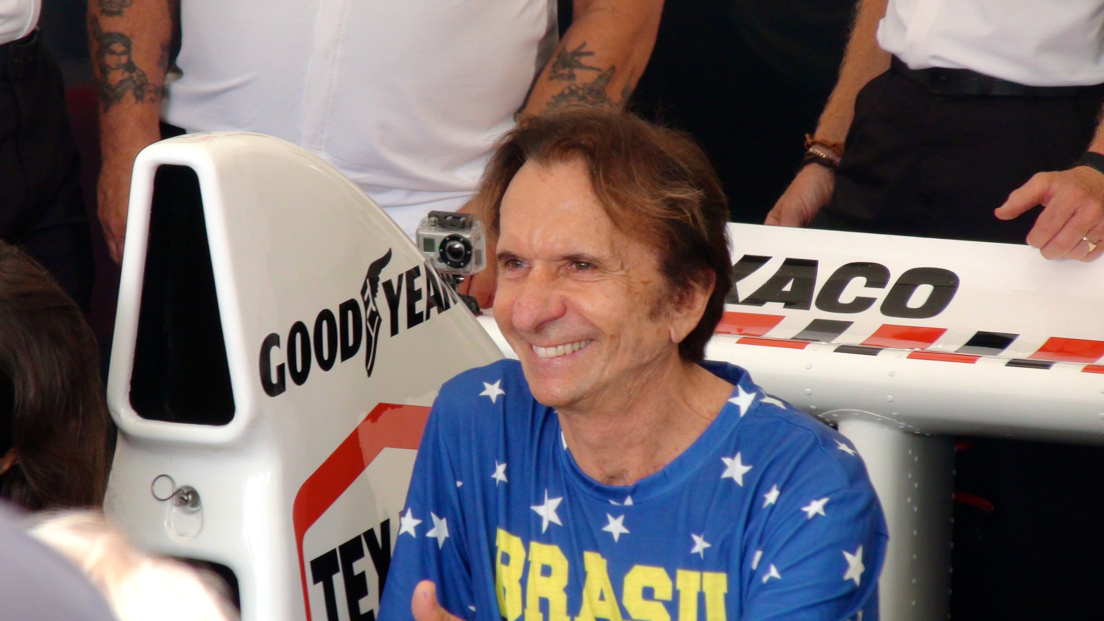 Two-time F1 World Champion Emerson Fittipaldi next to the 1974 McLaren M23, at the 2014 Goodwood Festival of Speed.